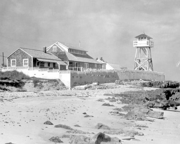 The House of Refuge at Gilbert's Bar, now the House of Refuge Museum, or simply the House of Refuge, is an historic building on Hutchinson Island east of Stuart, Florida. It is the oldest surviving building in Martin County.